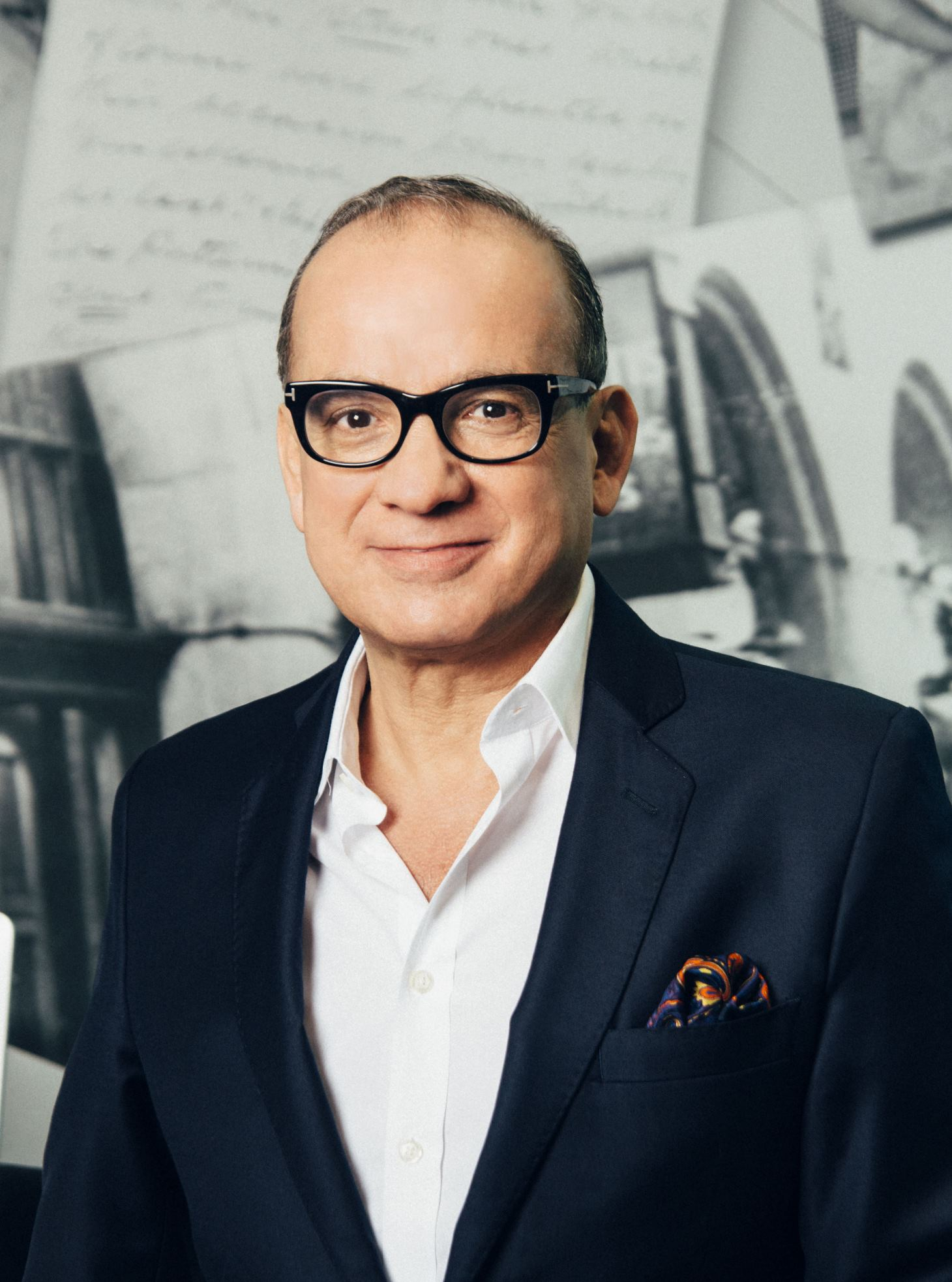 Portrait photograph of Turkish Cypriot businessman Touker Suleyman